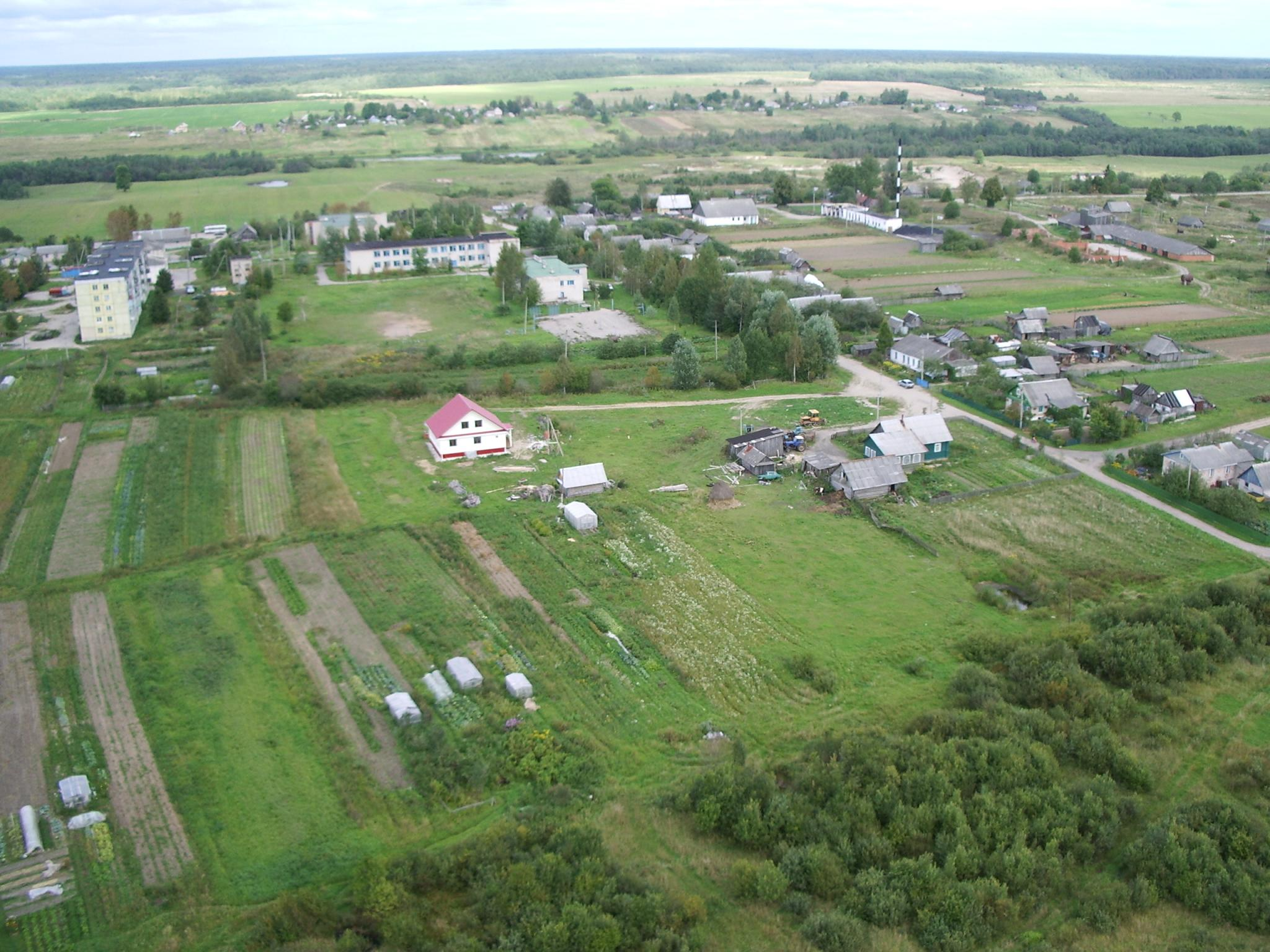 Novoe Ovsino village. Batetsky district, Novgorod oblast, Russia